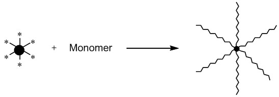 This figure represents a generalized core-first synthesis approach to star-shaped polymers. The * symbols represent active functionalities.